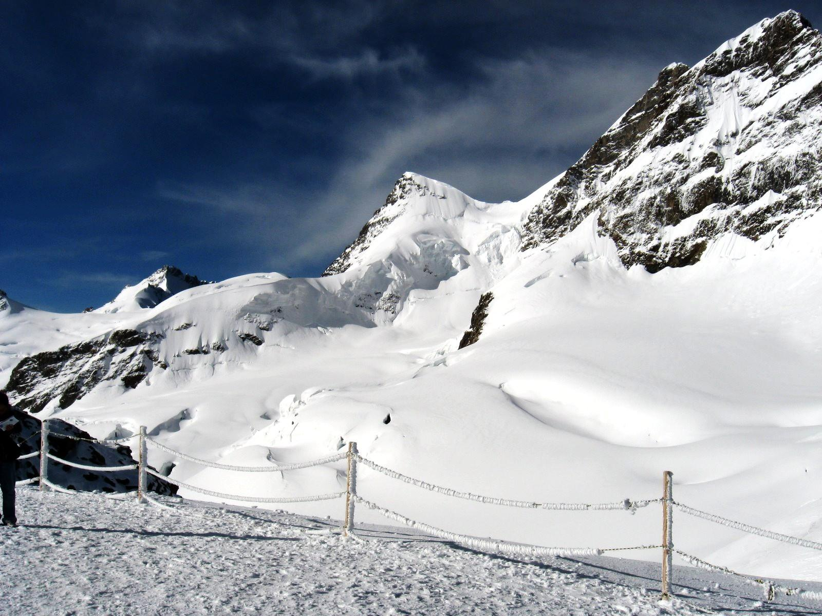 Jungfrau (4150m) from Jungfraujoch (3500m), bernese Alps